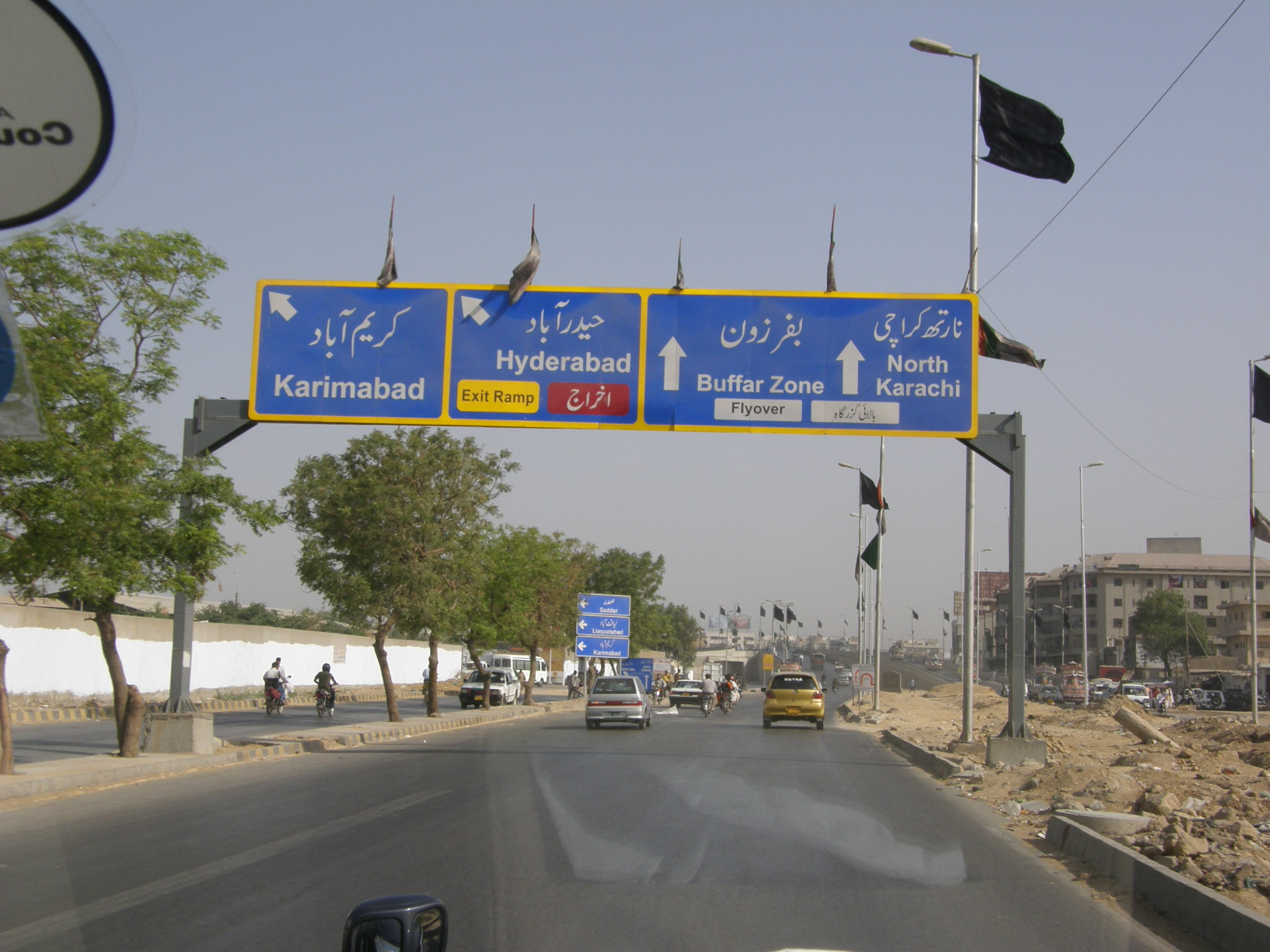 Road Heading Signs.